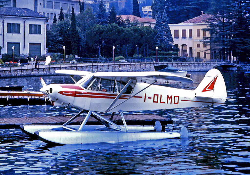 Piper Super Cub I-OLMO floatplane at Como (LILY) in 1965